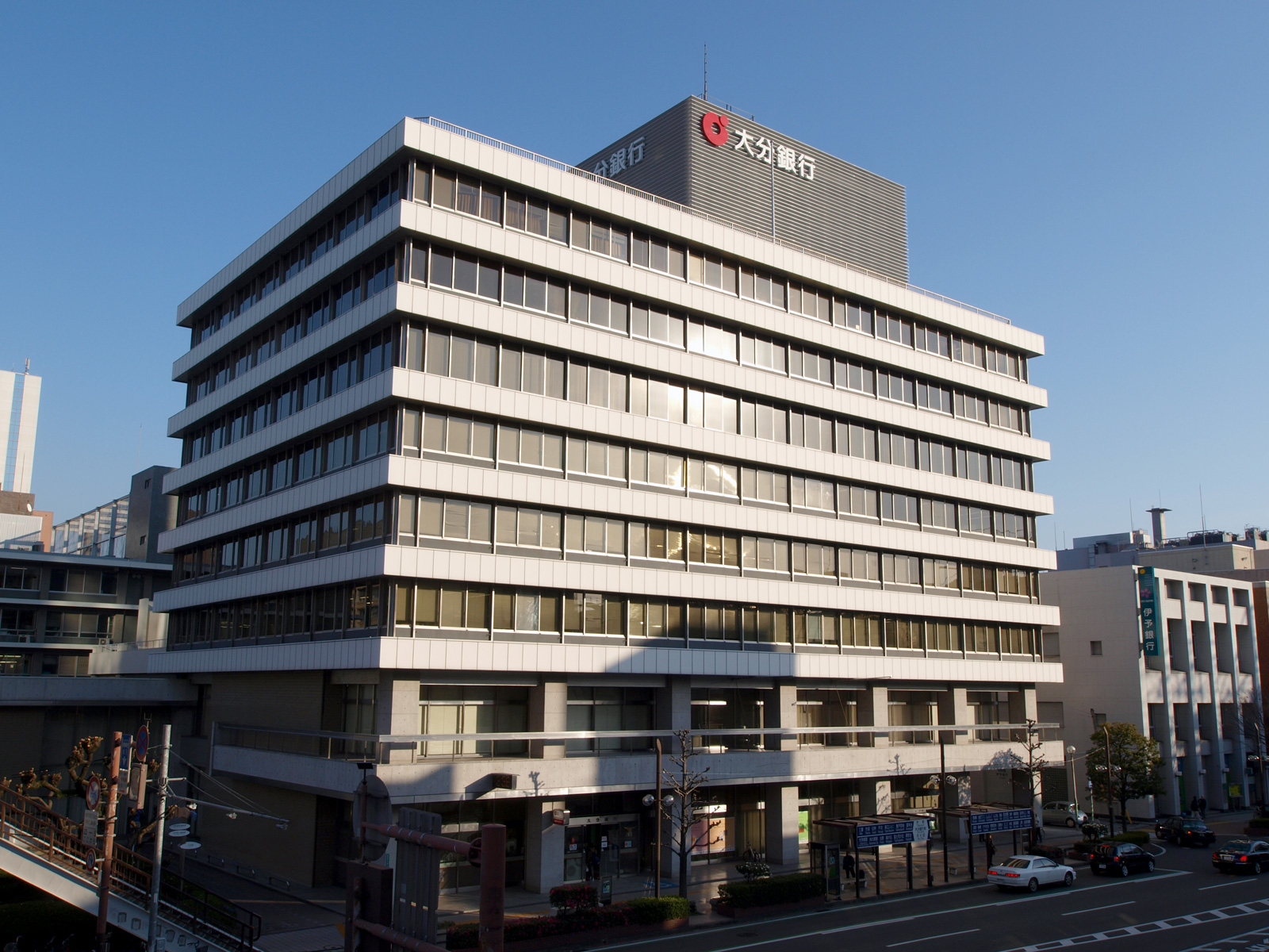 Oita Bank HQ, Oita Pref., Japan